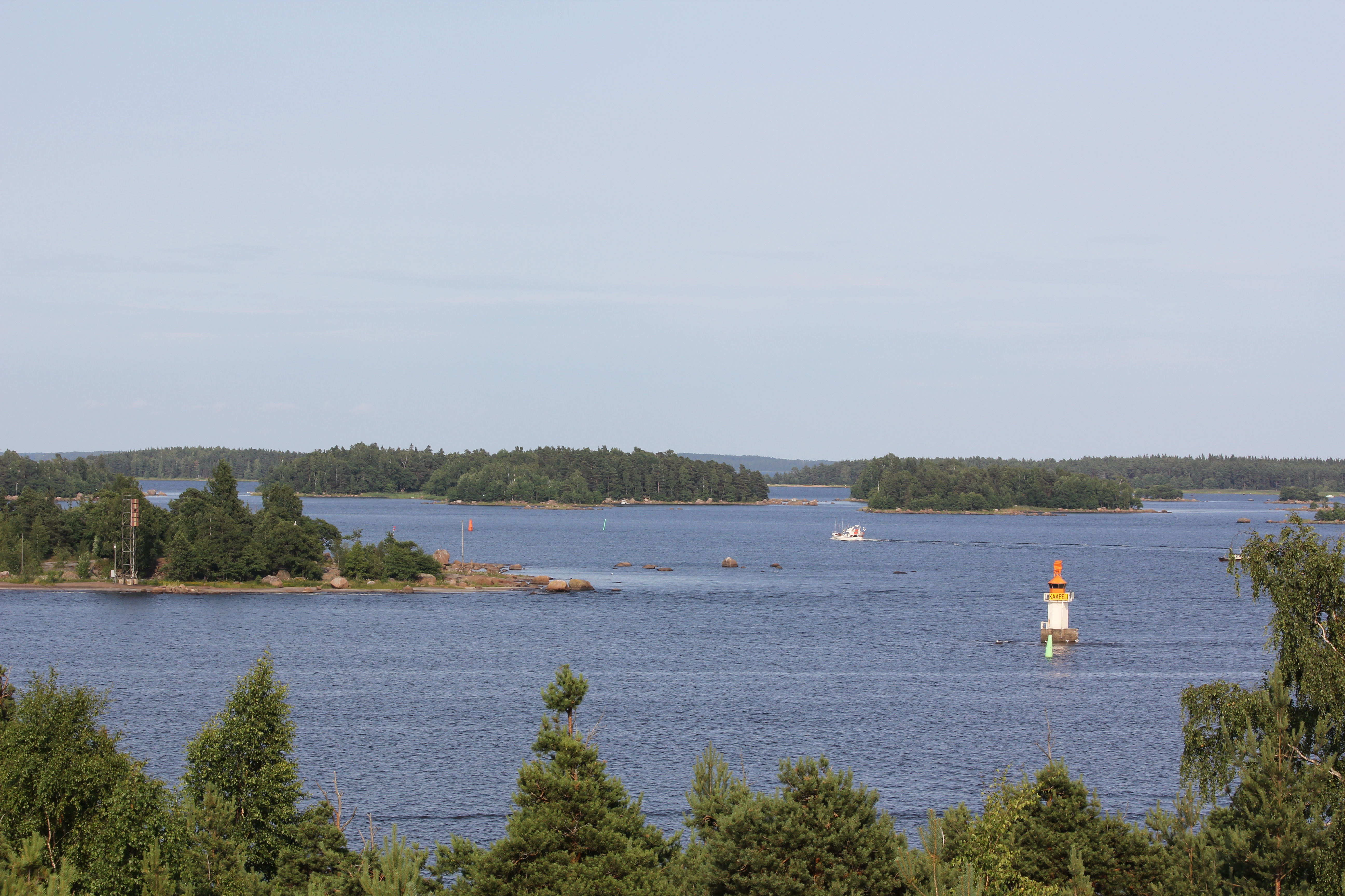 A boat heading towards Ruotsinsalmi (Svensksund) strait in Kotka. Photographed from Kuusinen observation tower.